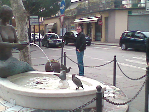 Statue of Angelika (CERVIA ITALY)